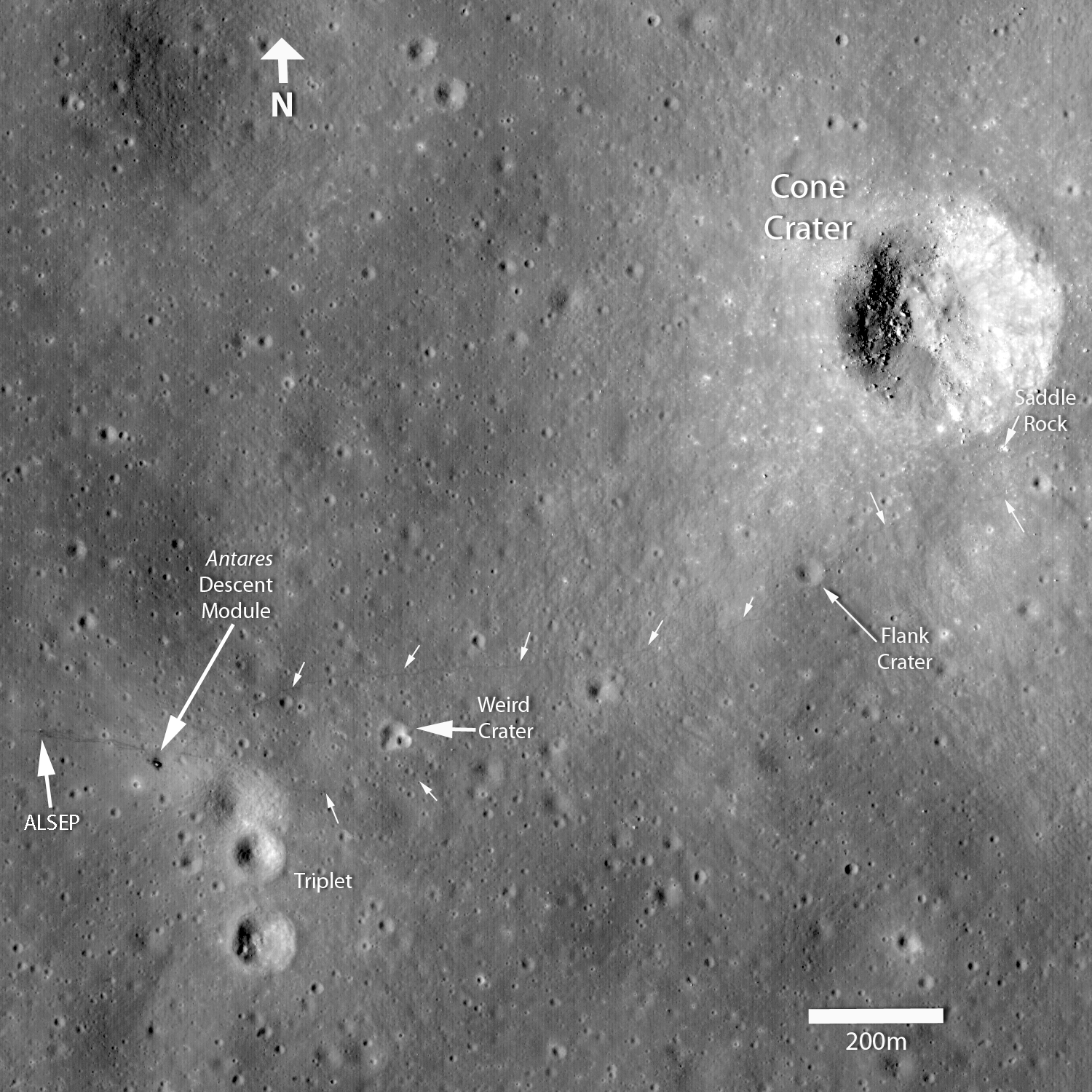 Later Apollo 14 landing site photo from Lunar Reconnaissance Orbiter